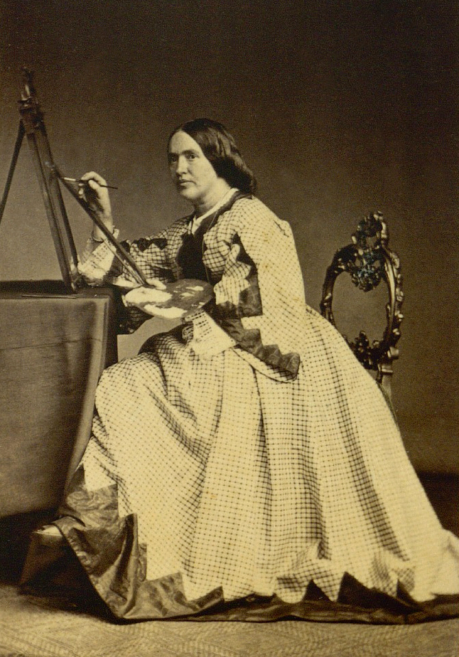 Elisabeth Jerichau Baumann (1816-1876). Danish painter. KB id: ke016877.tif Photo: Rudolph Striegler (1816-1876) Department of Maps, Print and Photographs, The Royal Library, Denmark.